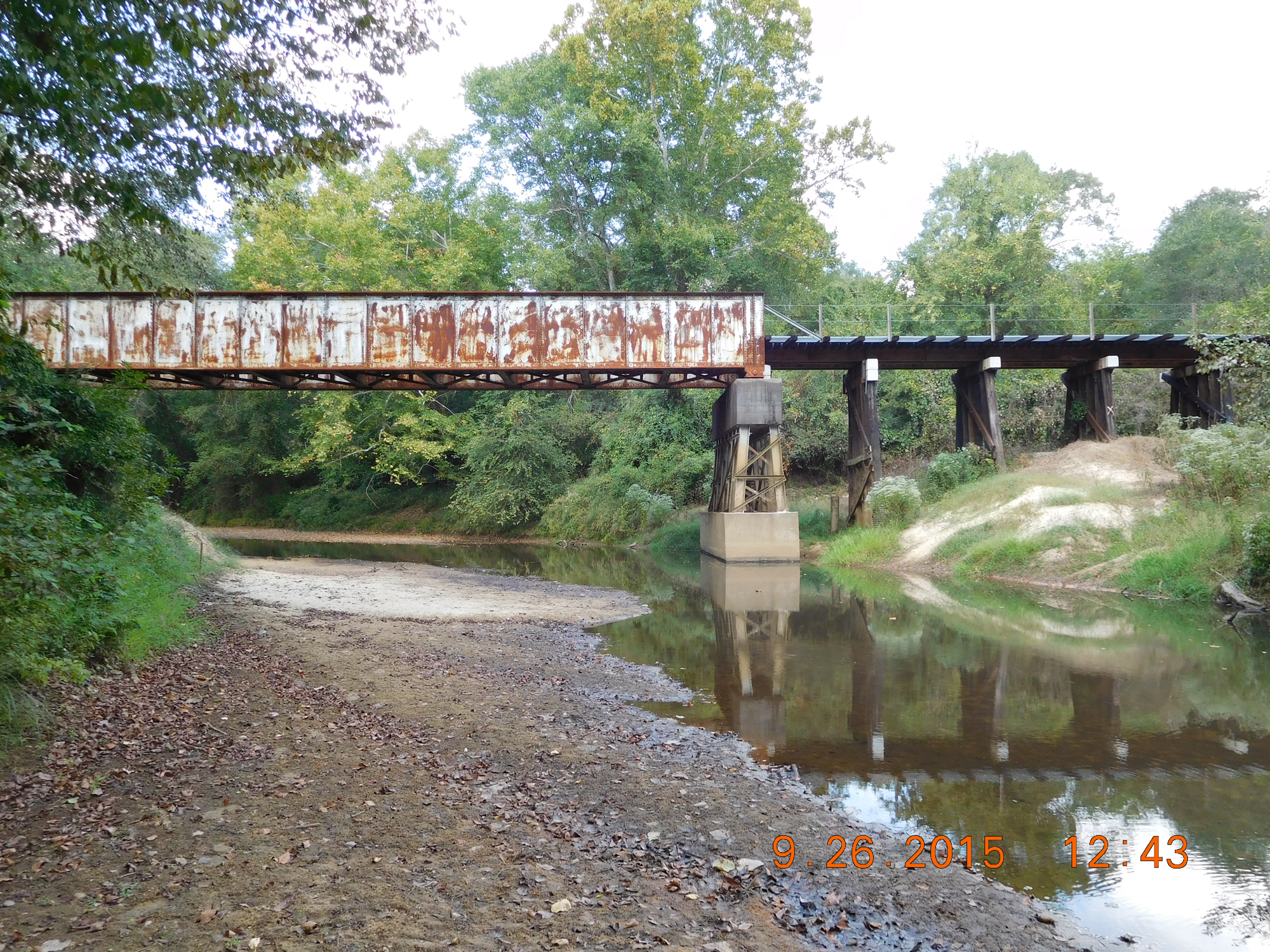 The site where the engine Hercules and its cars crashed on February 19th of 1863. This image was captured during the fall of 2015 by Robert Bruce Ferguson for Civil War research purposes.